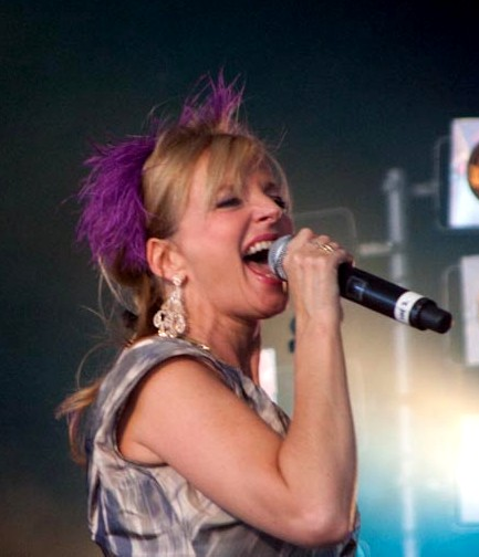 Clare Grogan of Altered Images performing at Ascot Racecourse, in Ascot, Berkshire (UK)